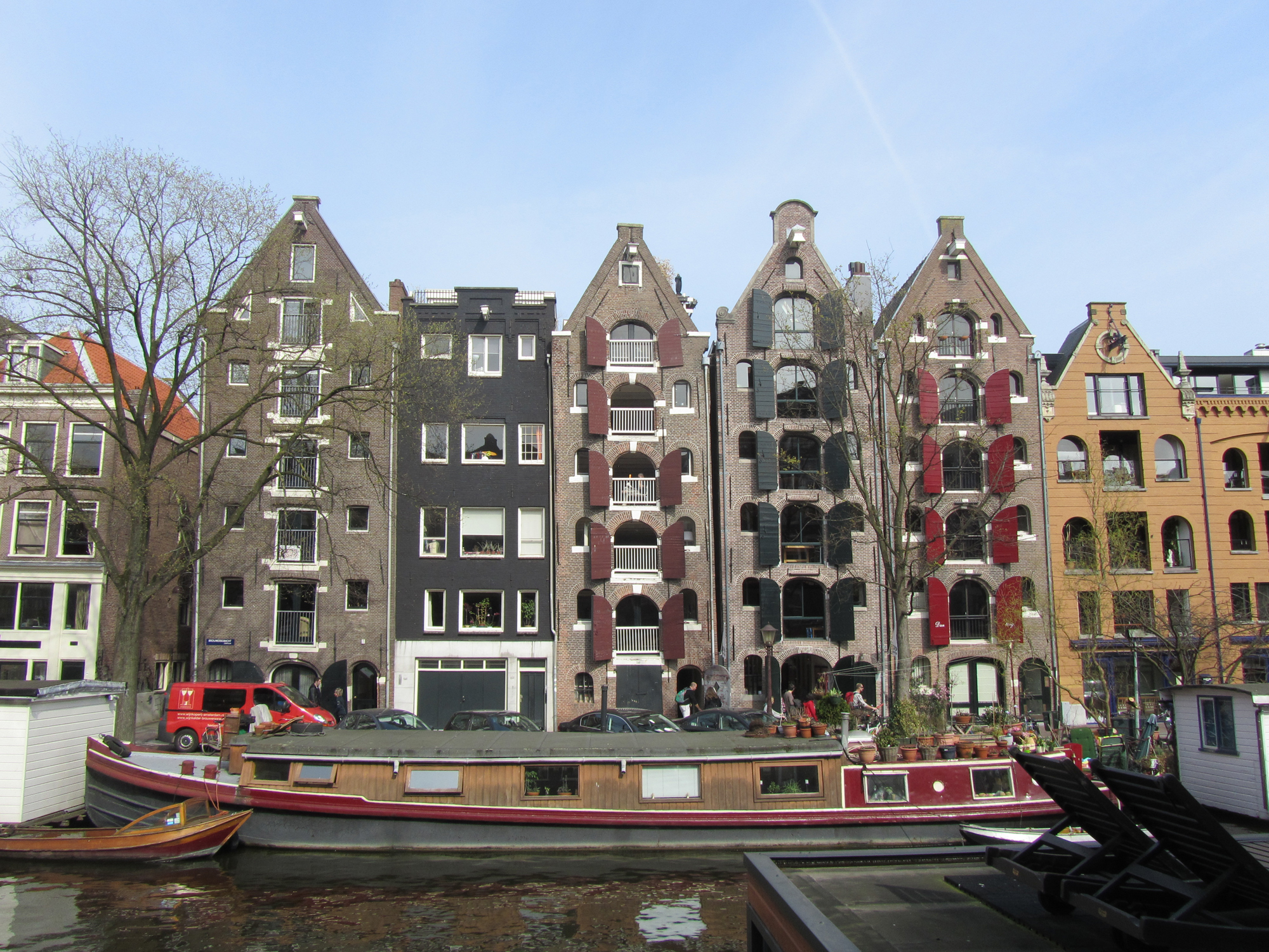 Warehouses on Brouwersgracht canal in Amsterdam